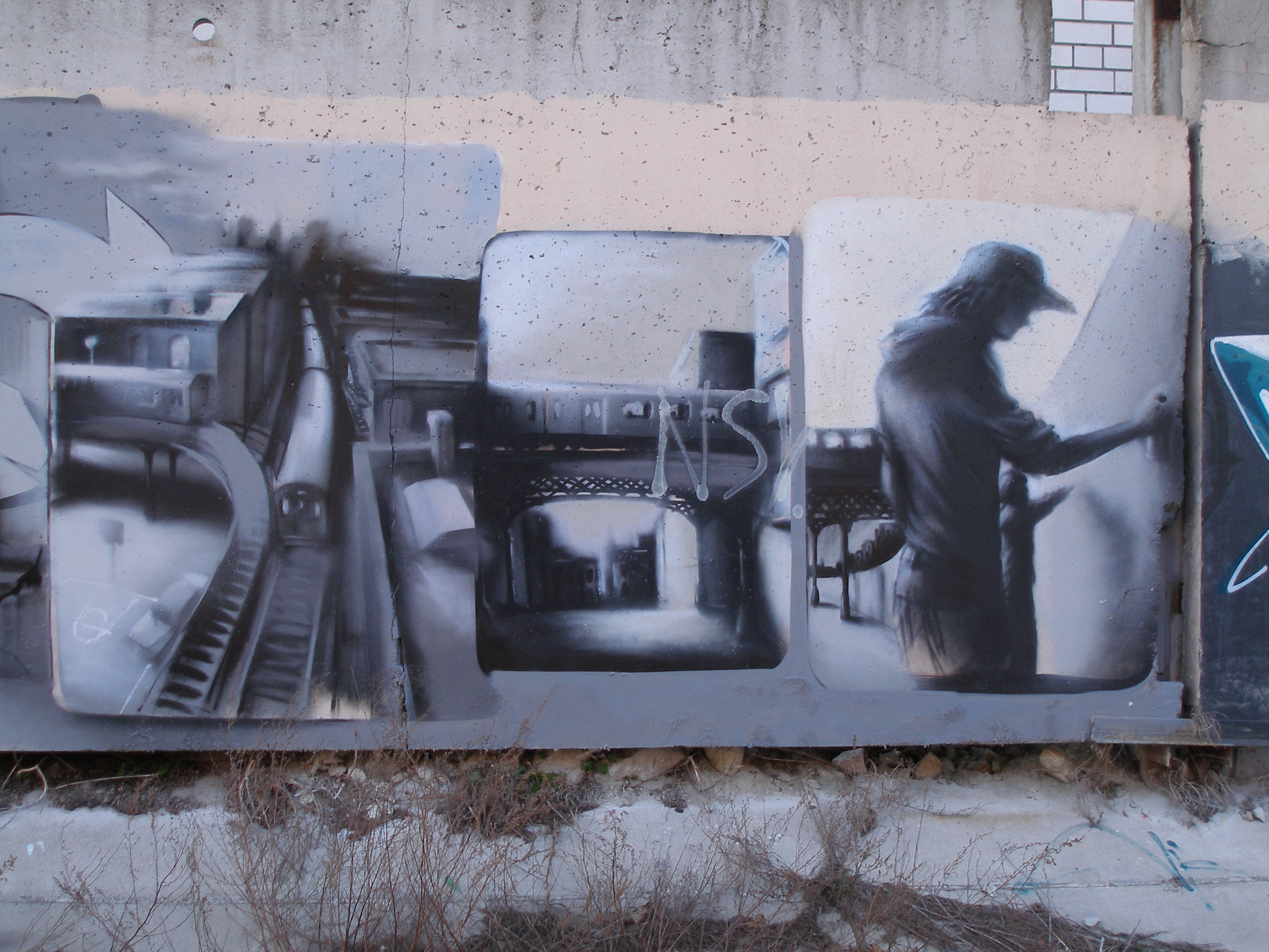 Graffiti in the district of Nõmme in Tallinn, by an old railway.